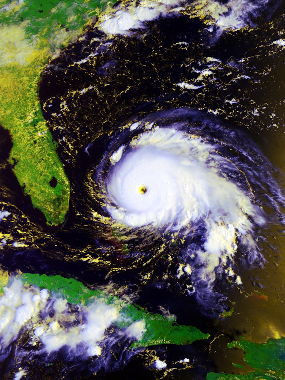 RGB Color image of Hurricane Dorian taken by the Advanced Very High Resolution (AVHRR) instrument onboard the METOP-A satellite on September 1, 2019